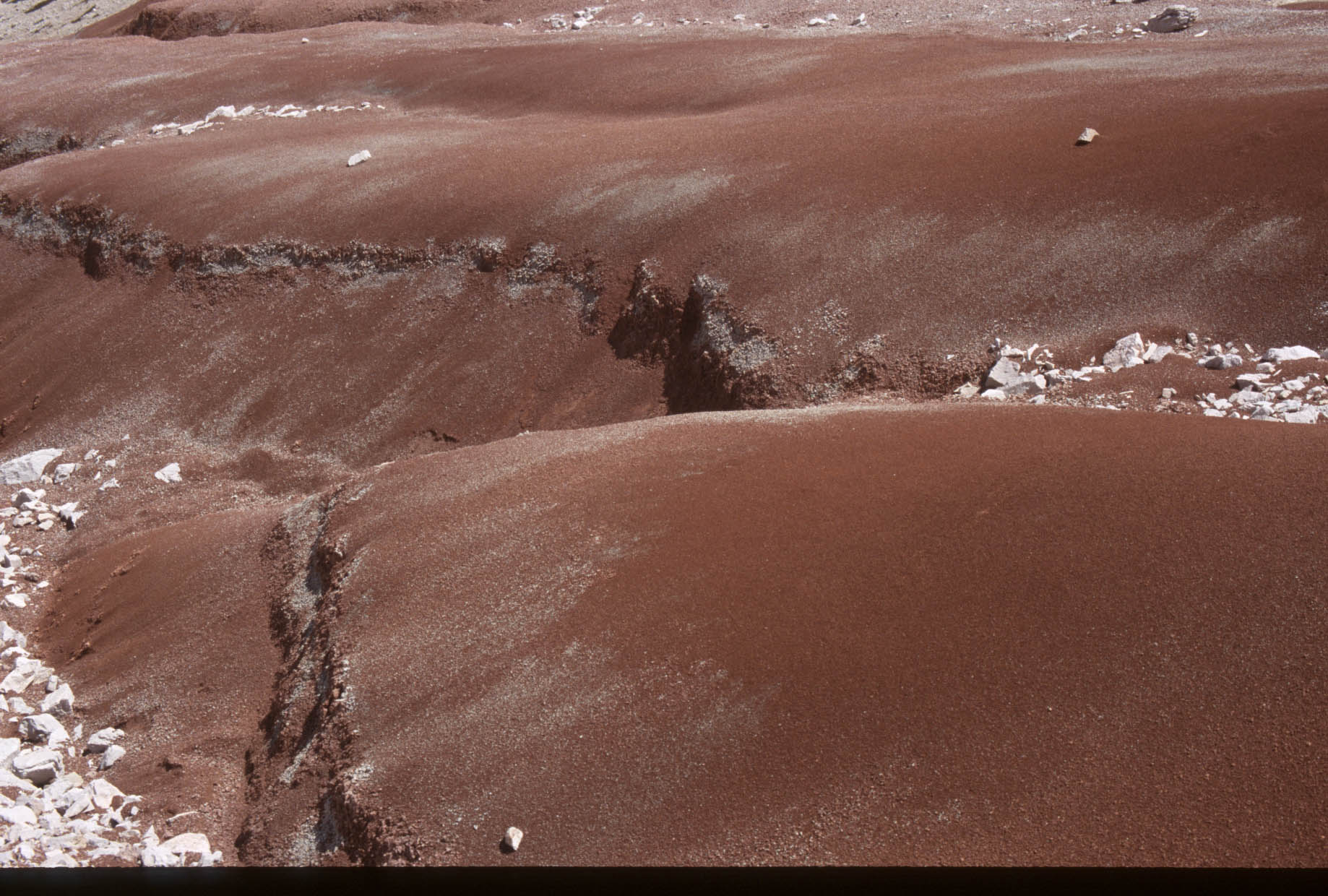 Author: kaapitone